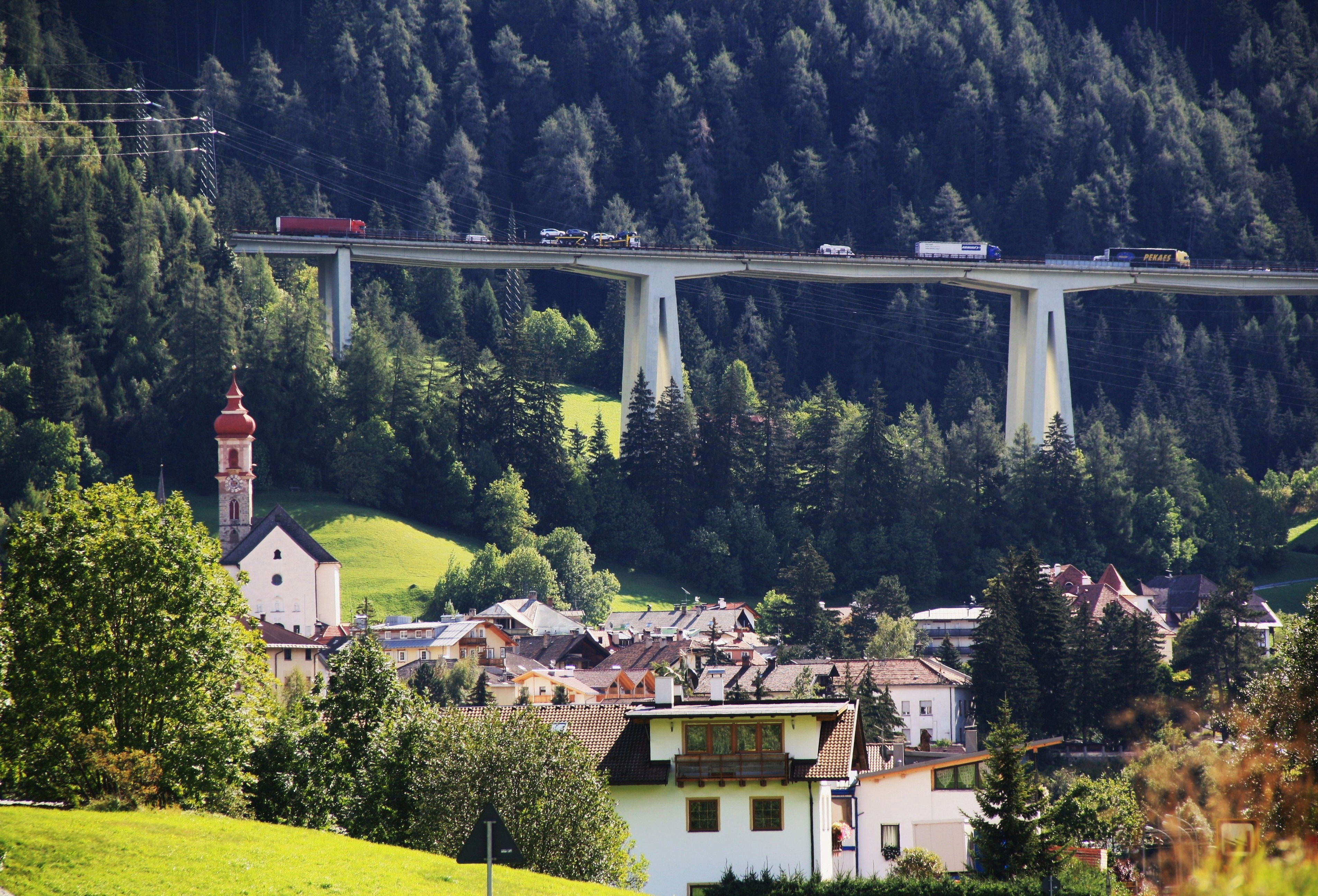 Italy, South Tyrol, Gossensaß. The village is dominated by the Motorway A22 viaduct.